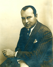 Former United States Representative from Oklahoma John Conover Nichols.